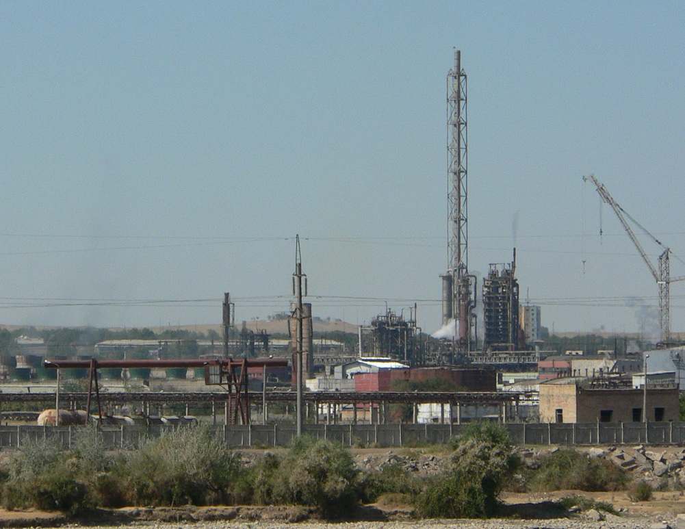 Industrial building near Chirchiq, Uzbekistan